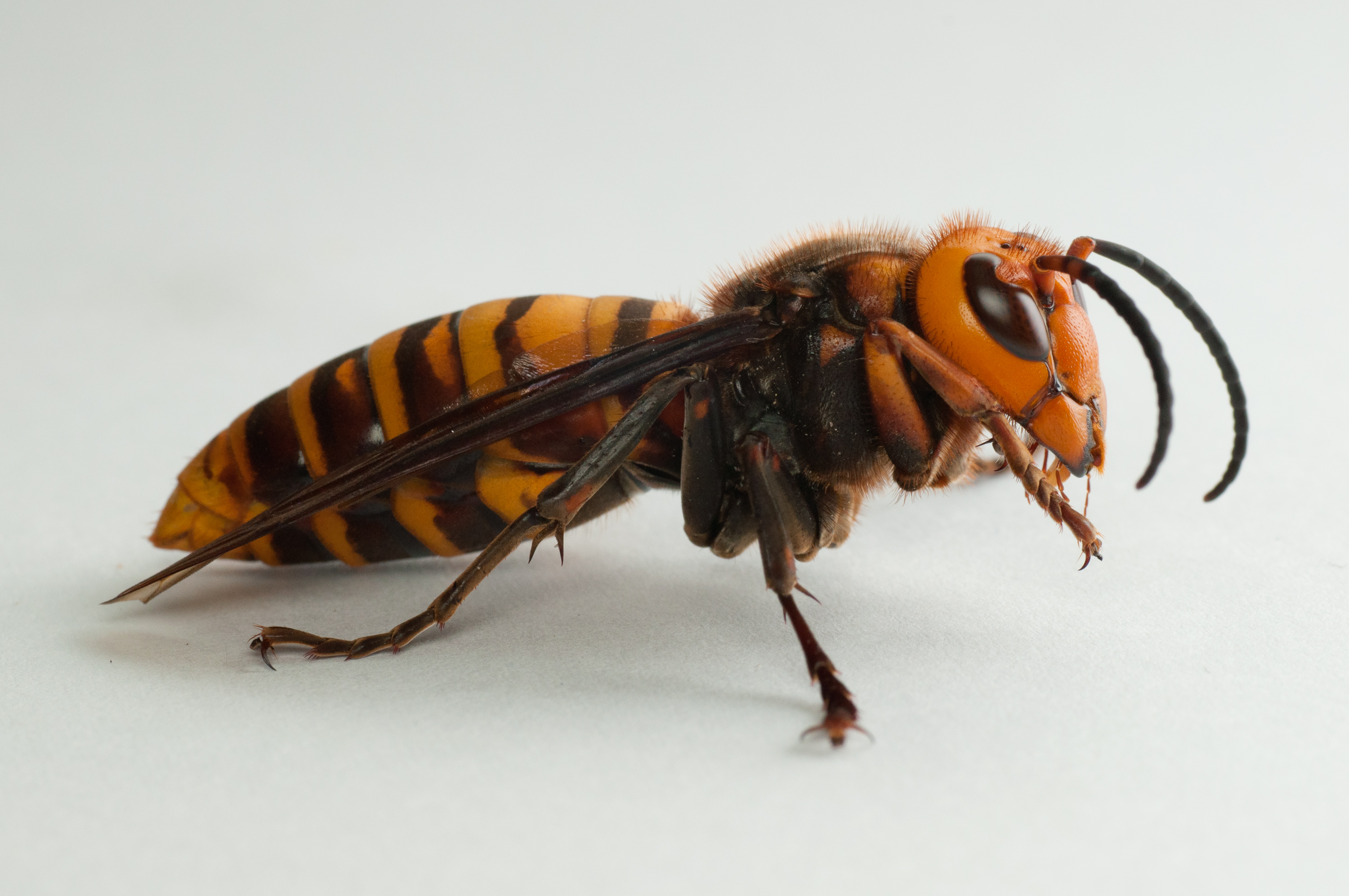 Male of Japanese giant hornet, Vespa mandarinia japonica